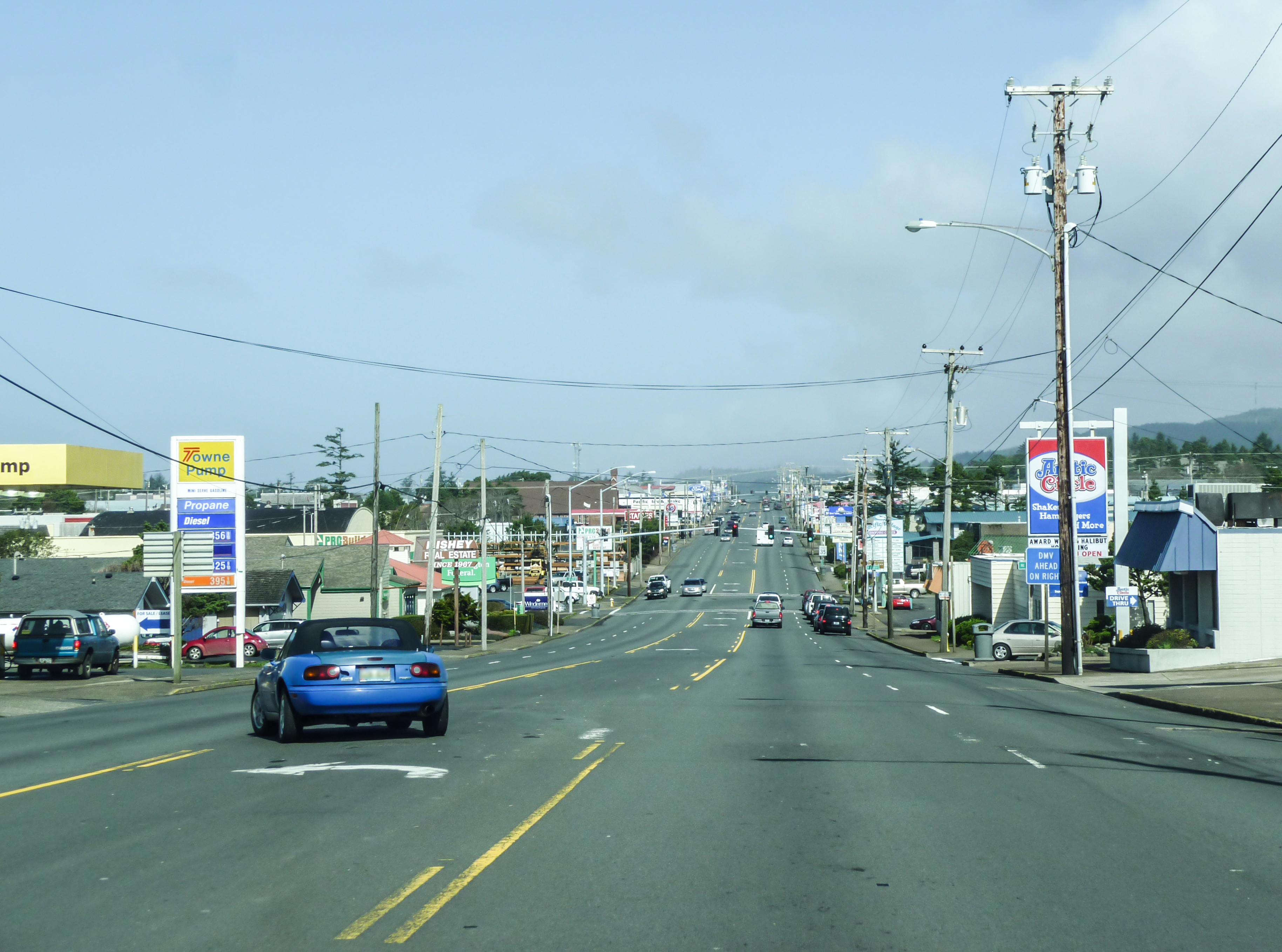 The U.S. Route 101 in Newport, Oregon, USA